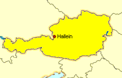 Map of Hallein in Austria